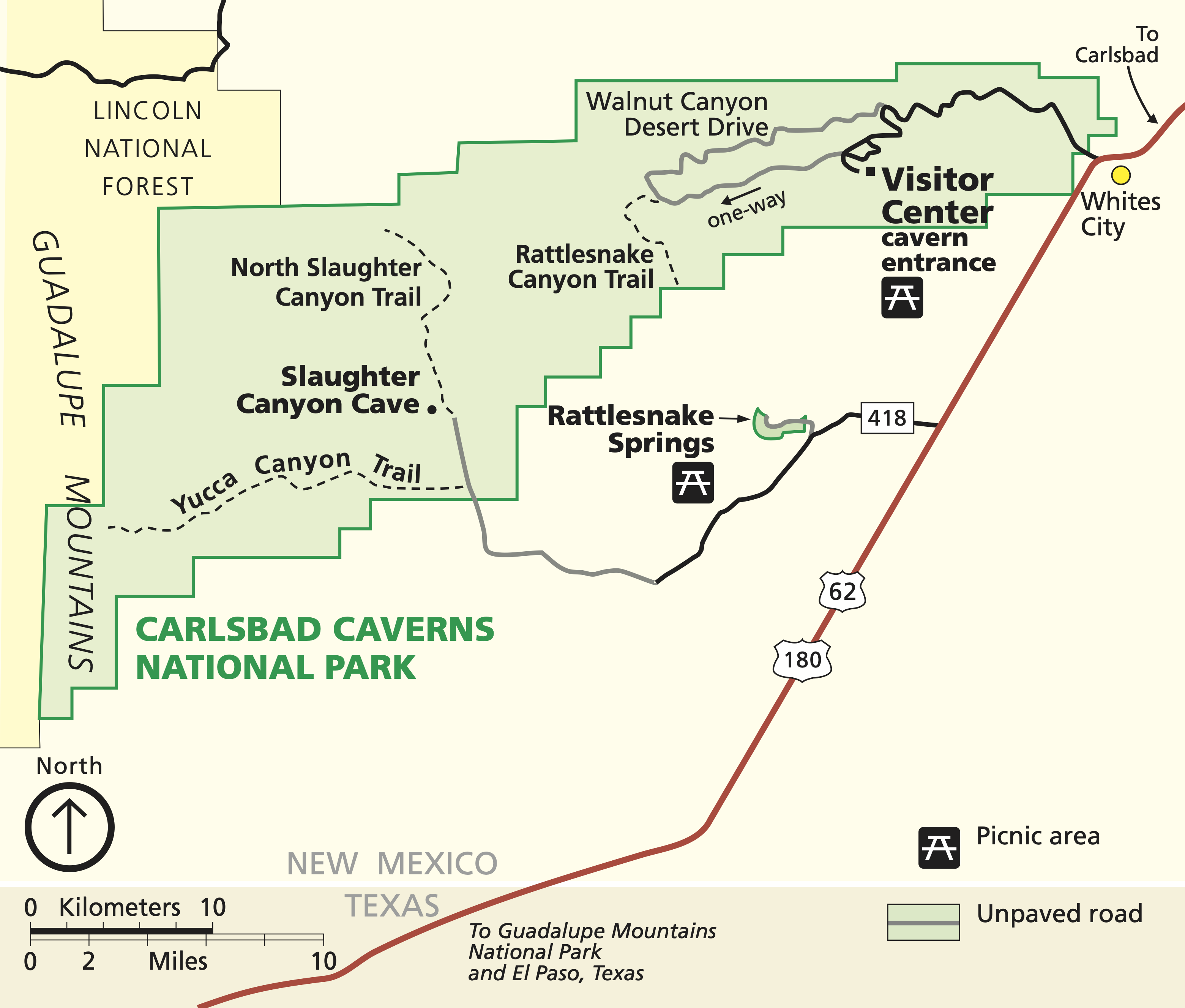 Map of Carlsbad Caverns National Park — in the Guadalupe Mountains, Eddy County, southeastern New Mexico.